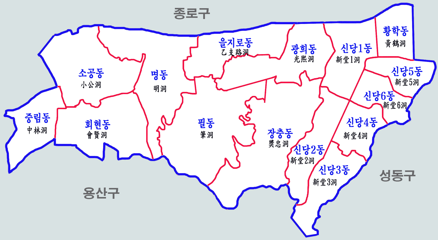 Copied from File:Seoul-jungu.png